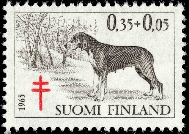 Postage stamp depicting the Finnish Hound